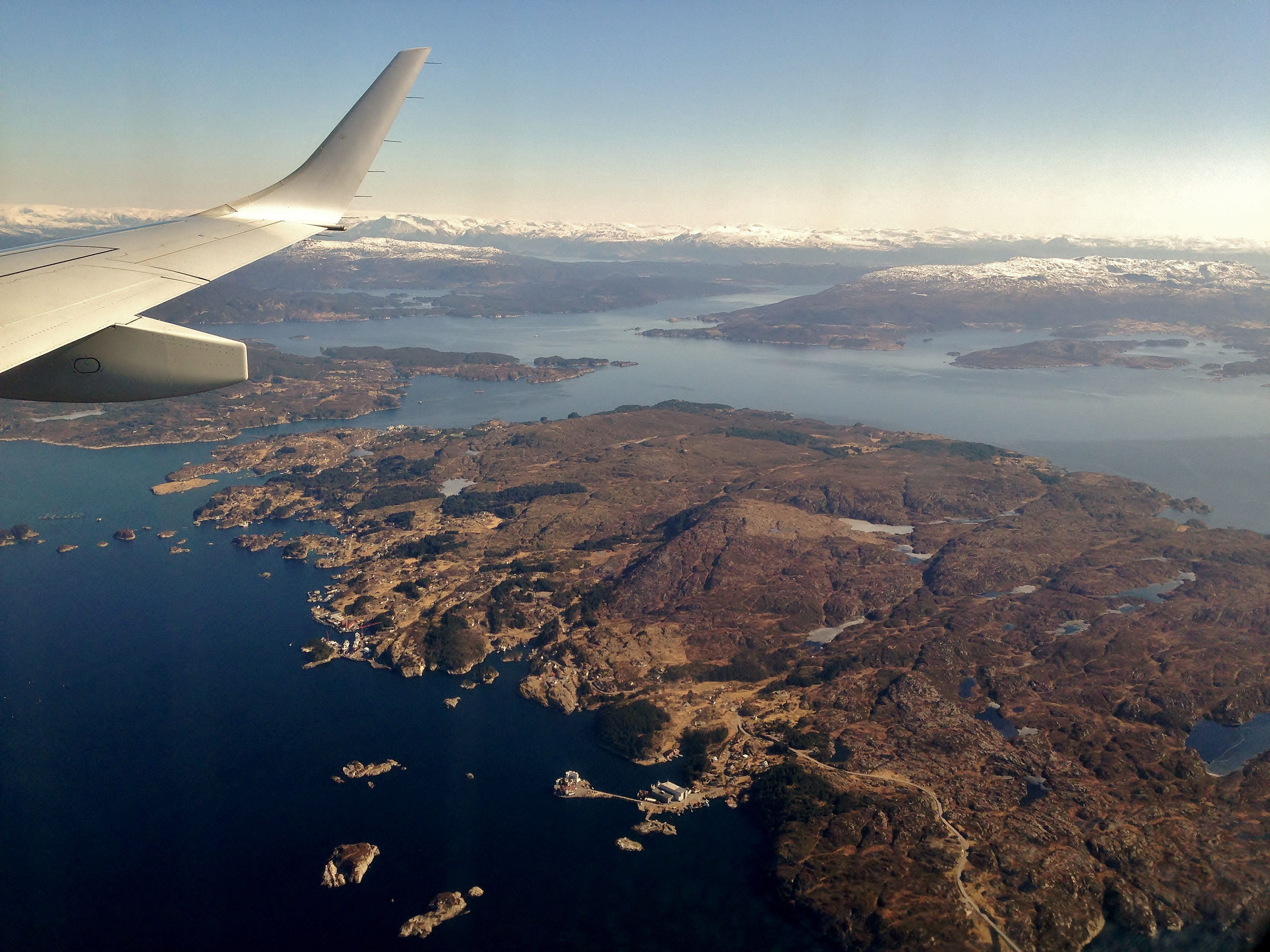 Selbjørn in Austevoll with Selbjørnsfjord to the right and Huftarøy partly covered by the wing.